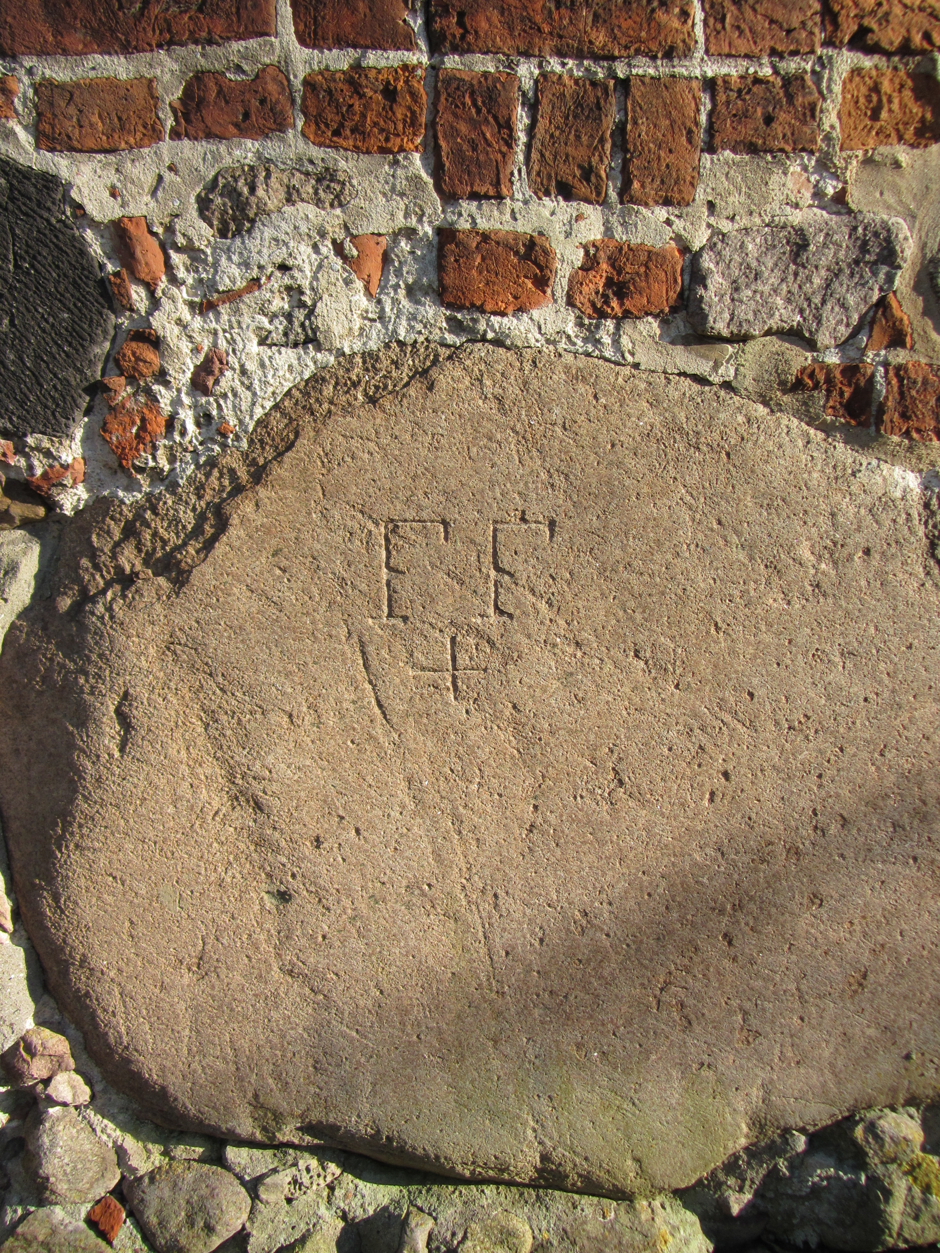 Church in Neubukow, district Rostock, Mecklenburg-Vorpommern, Germany